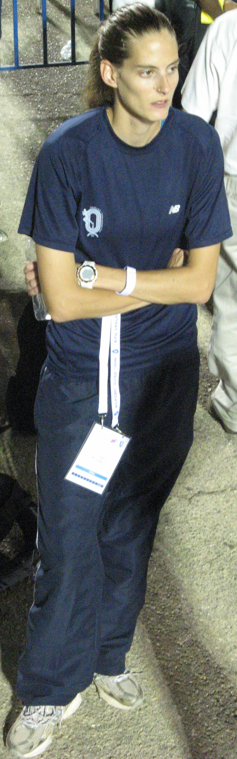 The Israeli high jumper Ma'ayan Foreman during the 2nd day of the Israel track and field championship 2011